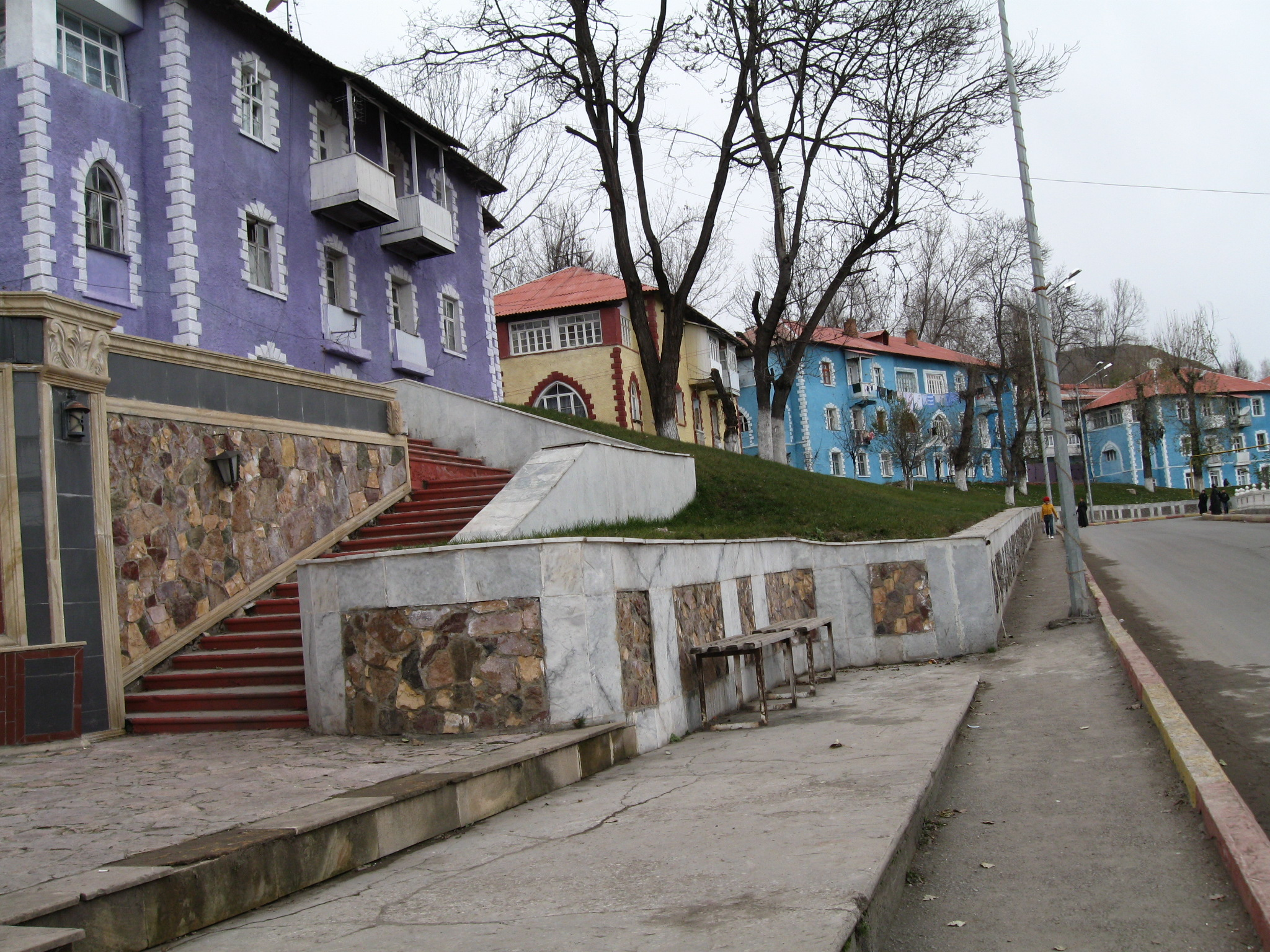 An example of some of the German-built apartment buildings in Dashkesen.